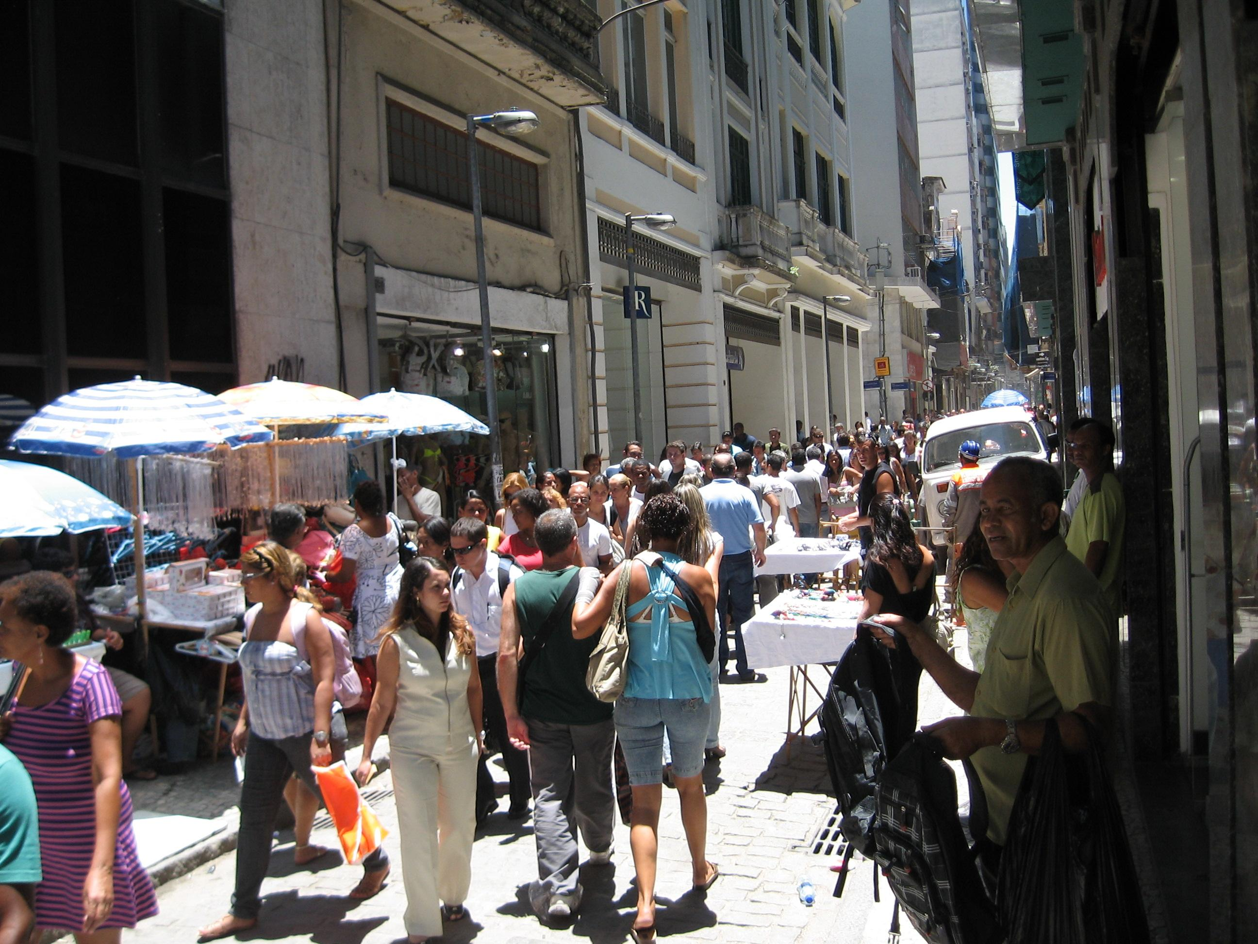 Ouvidor's Street-Rio de Janeiro-Brazil